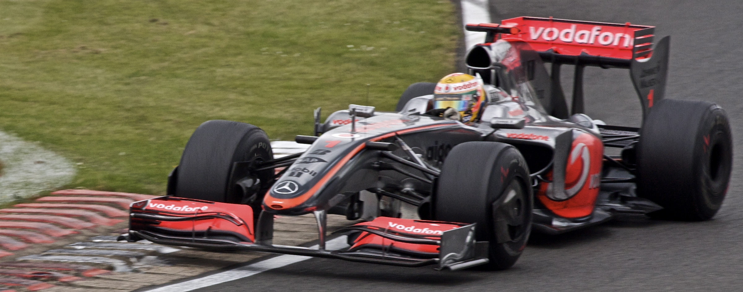 Lewis Hamilton at the 2009 British Grand Prix, Silverstone, UK.